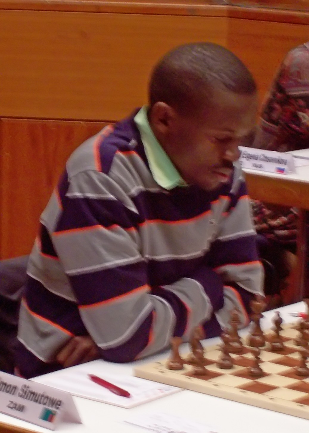 Amon Simutowe, International Master of chess from Zambia